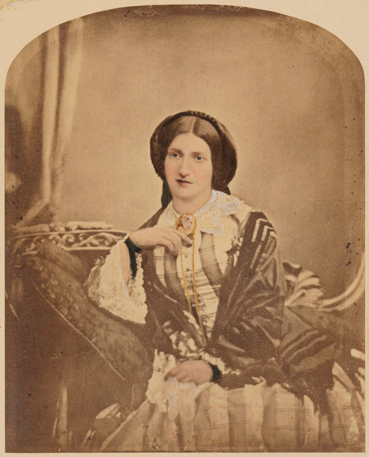 by Maull & Polyblank, hand-tinted albumen print, 1857